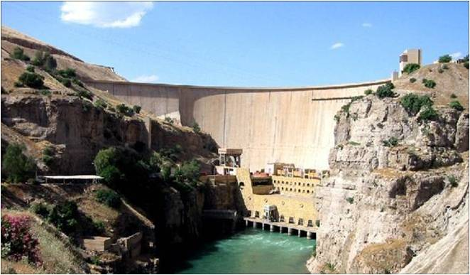 Front of Dukan Dam